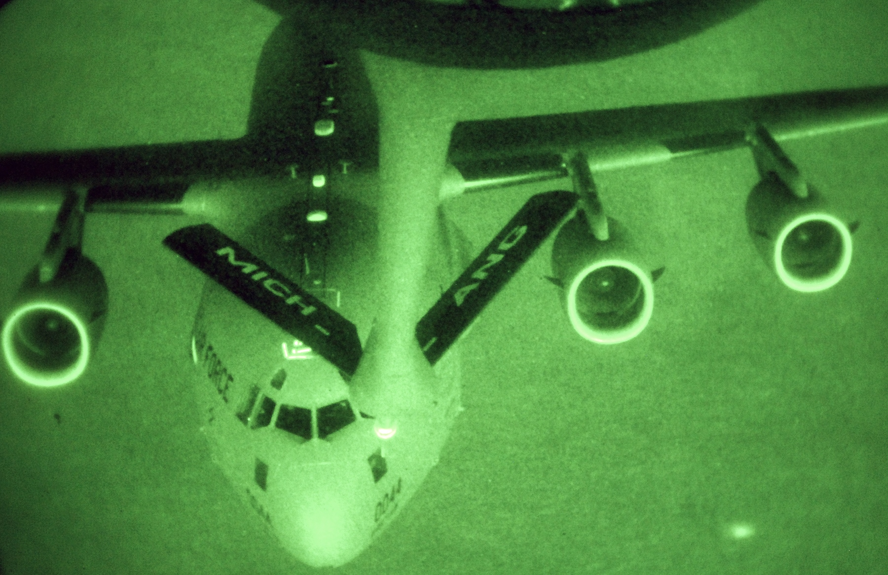 A KC-135 Stratotanker from the 127th Air Refueling Group, Selfridge Air National Guard Base, Mich., refuels a C-17 Globemaster III from the 445th Airlift Wing during a training mission on Aug. 25, 2015. The KC-135 Stratotanker is operated by the 127th Air Refueling Group, flown by the 171st Air Refueling Squadron and maintained by the 191st Maintenance and 191st Aircraft Maintenance squadrons.